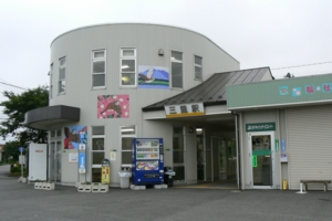 Misato Station in Mie prefecture.